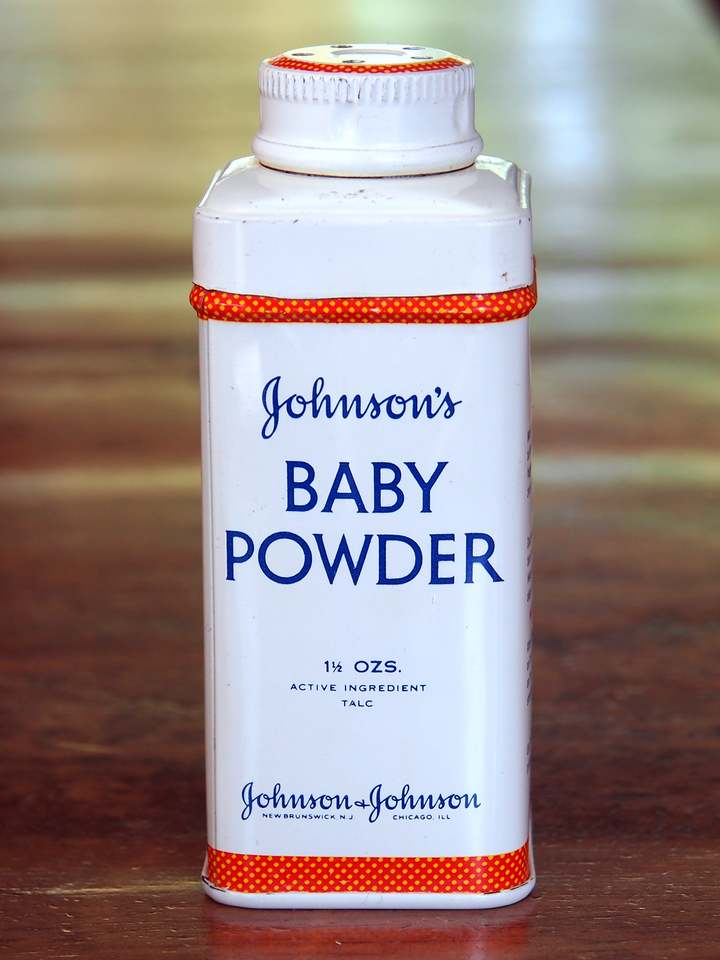 Old product that is not sold/produced anymore!